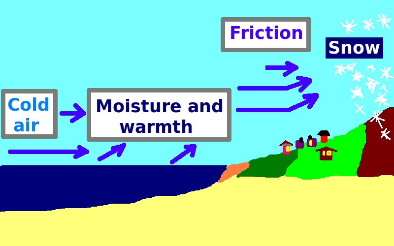 Lake effect snow happens when cold air travels over a lake with warm water. Moisture is added to the air. When the air travels over land, it is pushed upwards, generating friction, resulting in snow.